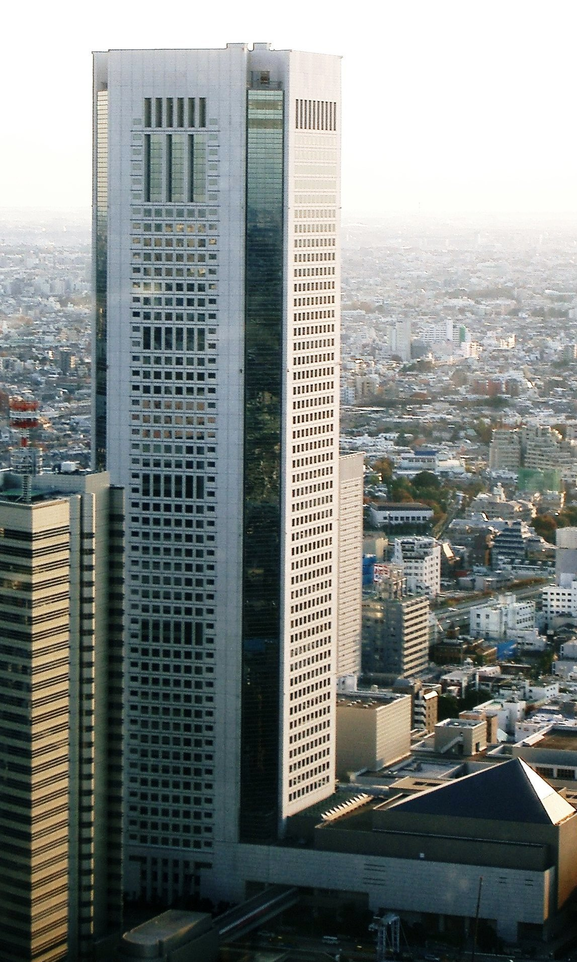 The Tokyo Opera City seen from an observatory of The Tokyo City Hall